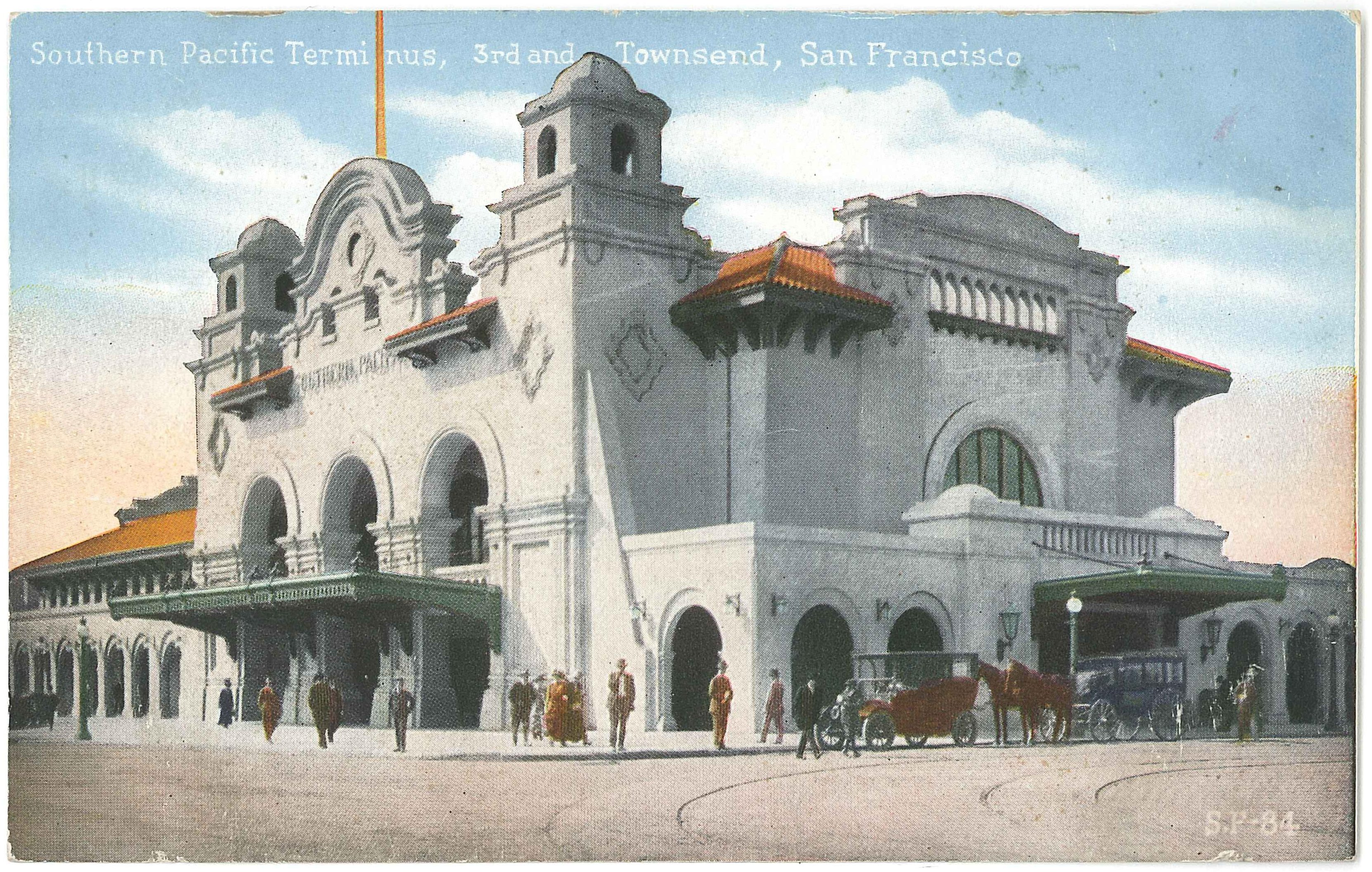 The Southern Pacific Railroad station, the SP's San Francisco terminus — a Mission Revival Style style building built in 1913. Formerly at 3rd and Townsend, in the South of Market district of San Francisco. Demolished in the 1970s. "Site now occupied by a closed Borders store. To be replaced, according to Yelp, by a bowling alley."